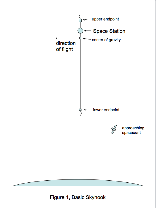 line drawing of a basic non-rotating Skyhook with approaching spacecraft over a planetary body